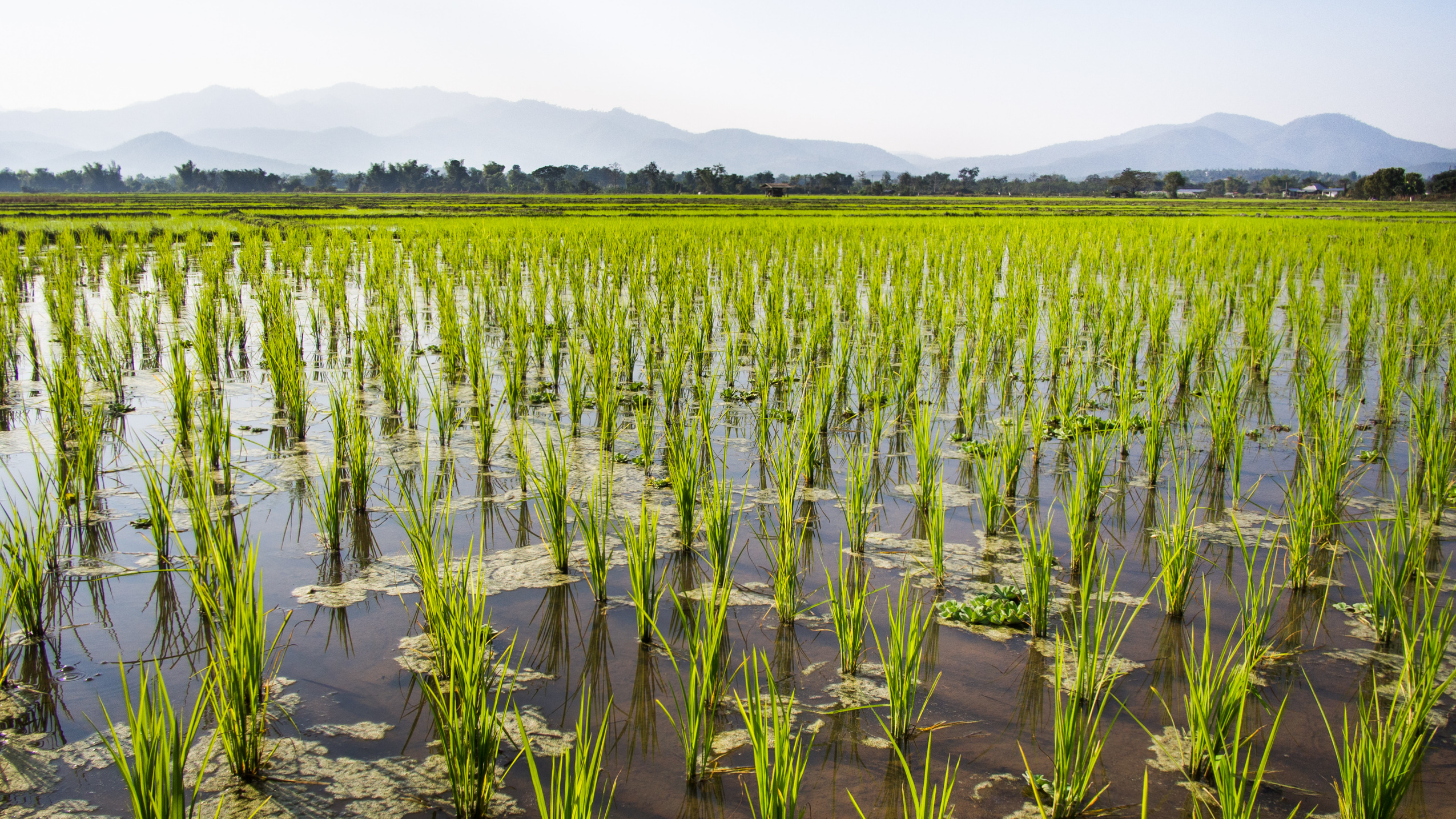 Paddies with newly planted rice in Phrao District, Chiang Mai Province.